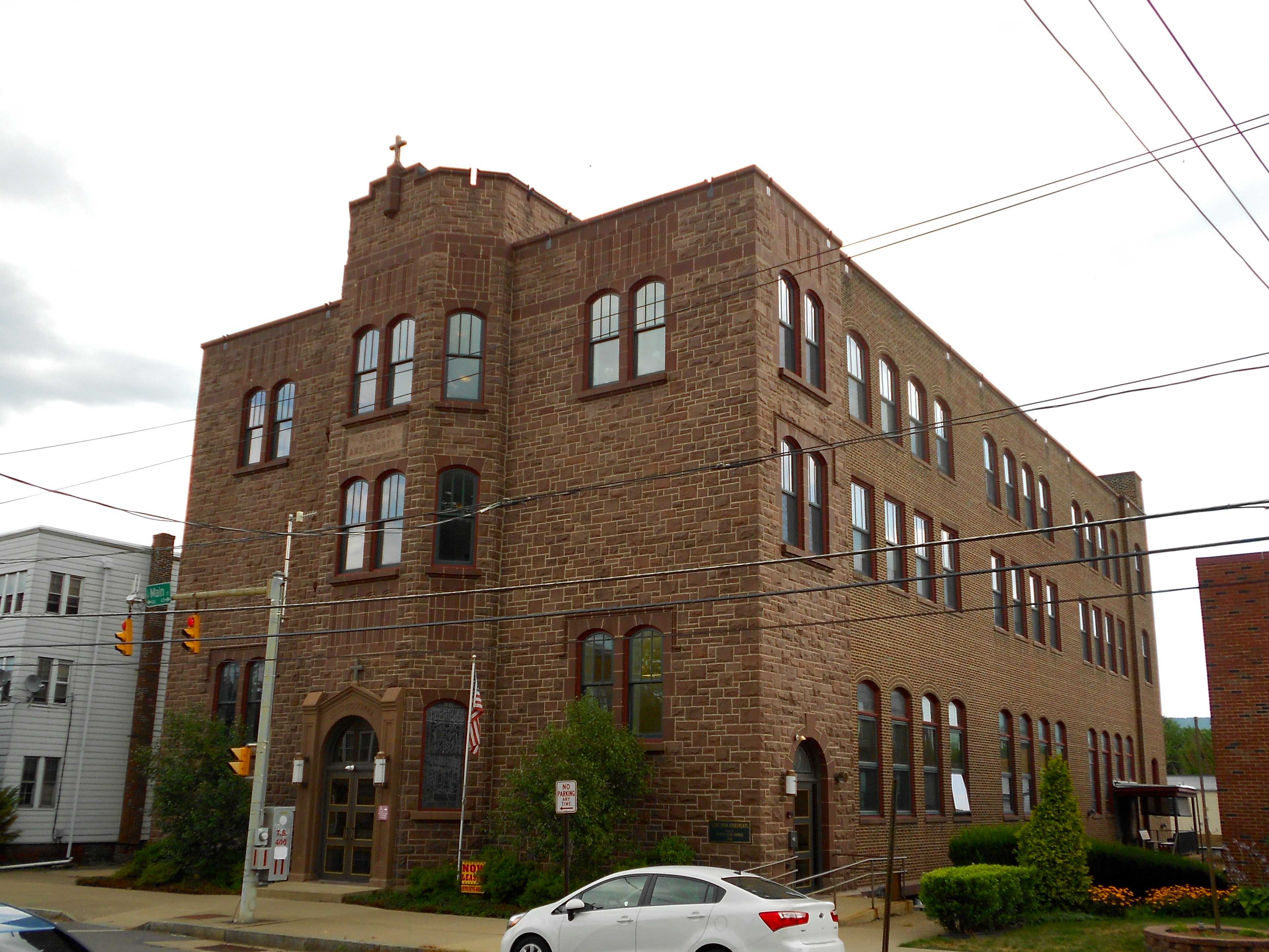 St. John the Evangelist Roman Catholic Church and School Building, on the NRHP since July 30, 2003. At 419 North Main Street, Wilkes-Barre, Luzerne County, Pennsylvania. Converted into apartments.